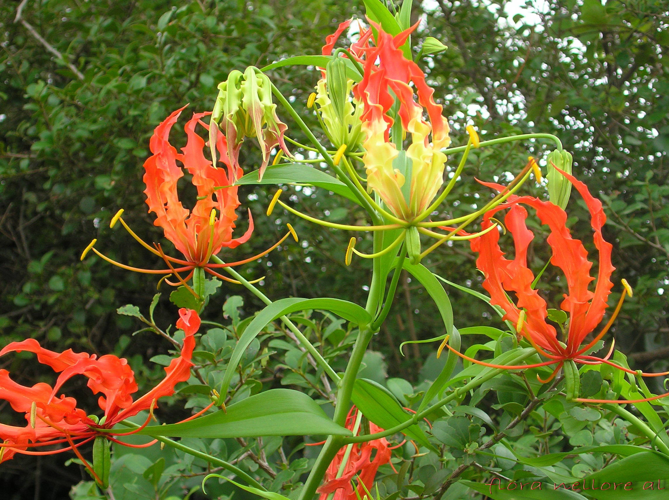 "Taxonomy: Family=Liliaceae" Local name(Telugu): Naabhi and Nagetigadda Distribution:A common non woody unarmed climber found in the forests of south India at the foot hills. Underground It is also a highily threatened species because of habitat destruction, and over exploitation. Under ground stem is rhizome It is poisonous. It is Y shped, The tip of the leaf tendrilar, The plant is also cultivated for the rhizomes which yeilds colchicine and other alkaloids.The flowers are attractive, greenish yellow when young red when matures. Fruit is a Capsule.